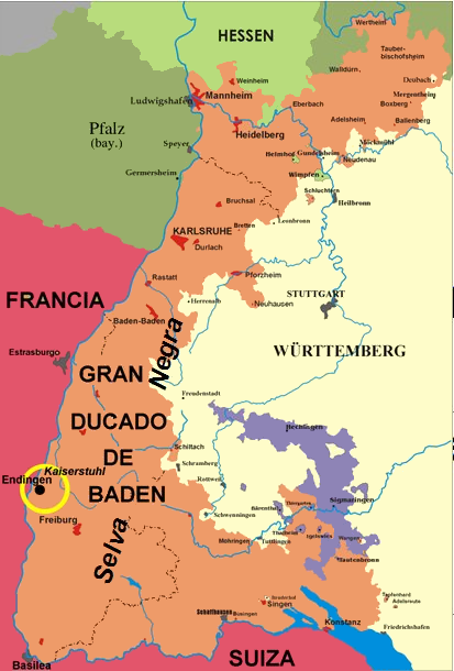 Gran Ducado de Baden. Derivative map from another Wikimedia Commons